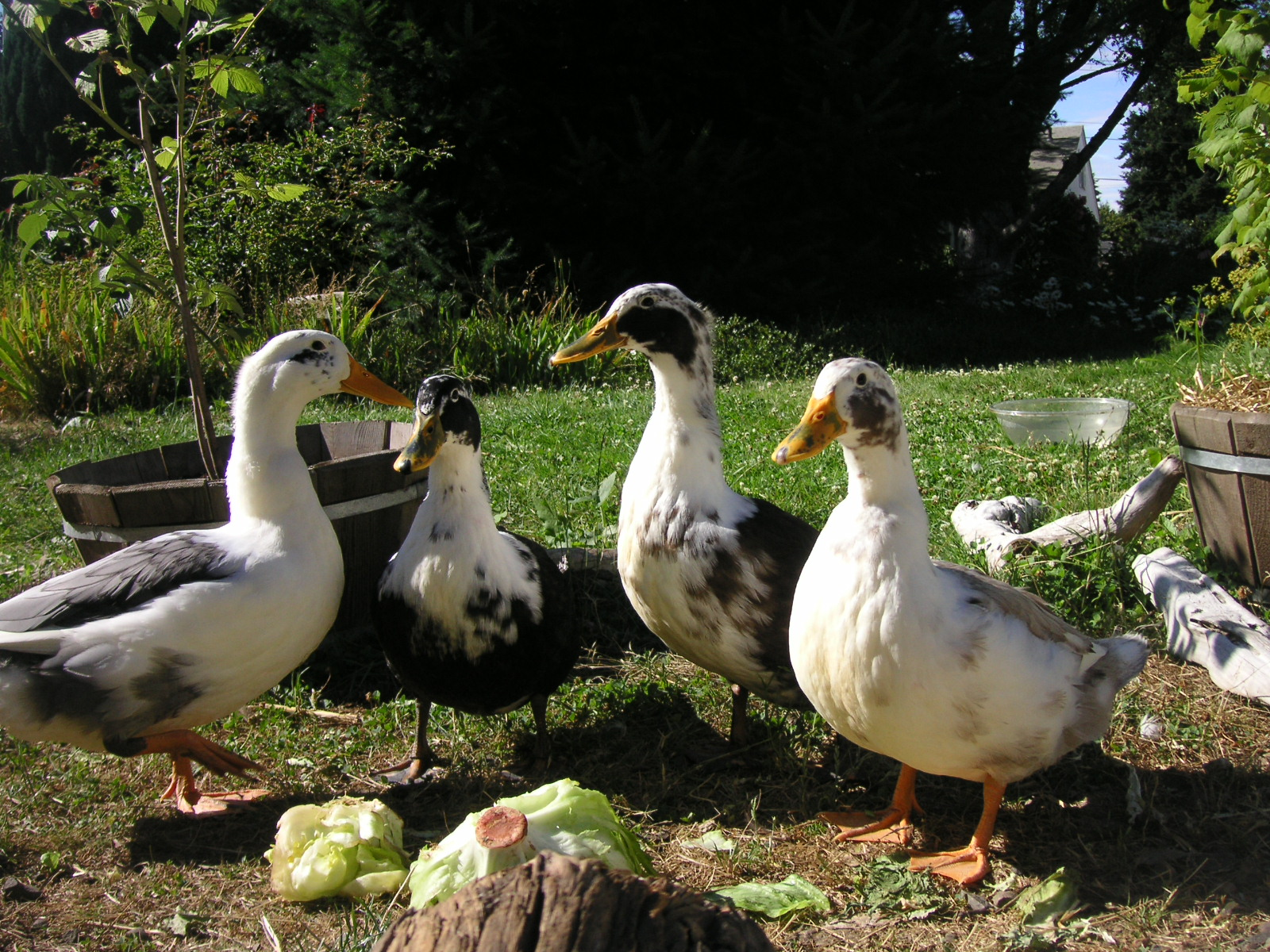 Ancona Ducks at the Boondockers Farm, Eugene Oregon 97405.